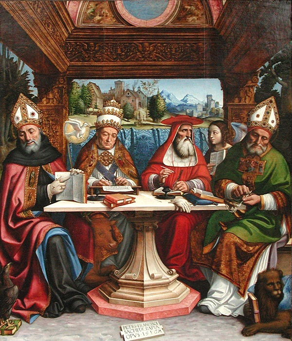 Four doctors of the Church represented with attributes of the Four Evangelists: St. Augustine with an eagle, St. Gregory the Great with a bull, St. Hieronymus with an angel, St. Ambrosius with a winged lion.